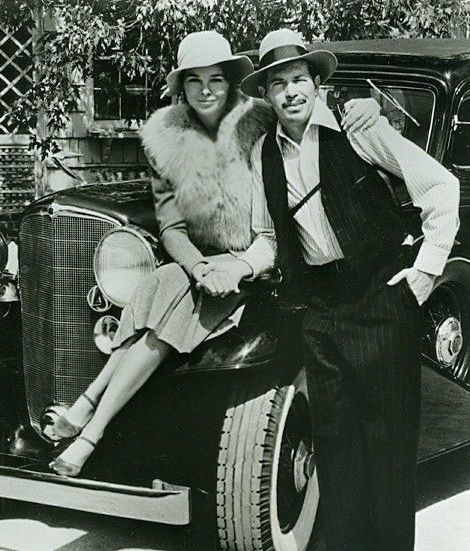 Michelle Phillips and Warren Oates in a publicity photo for Dillinger